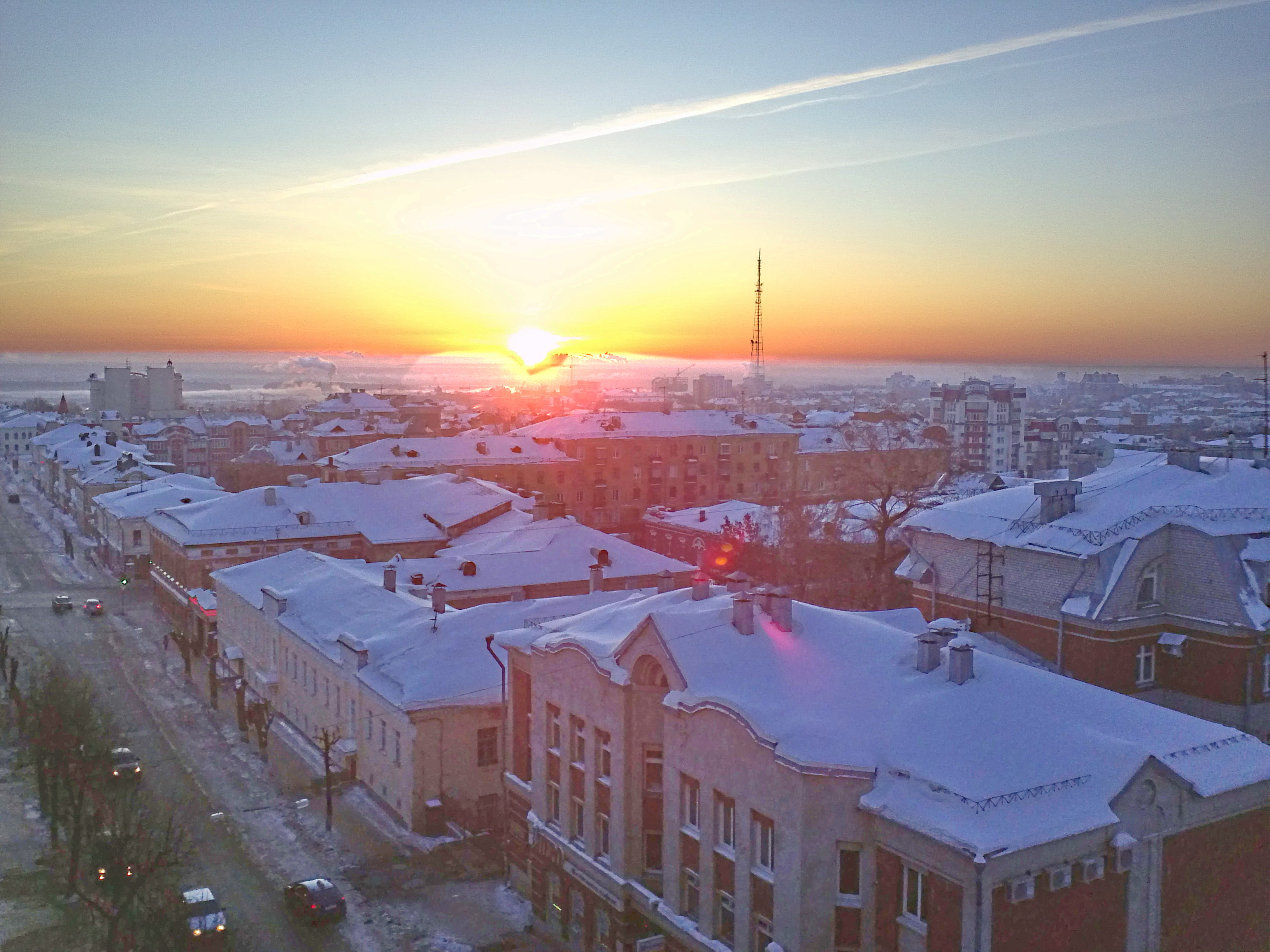 Sunrise over the city of Kirov. UTC+4 local time